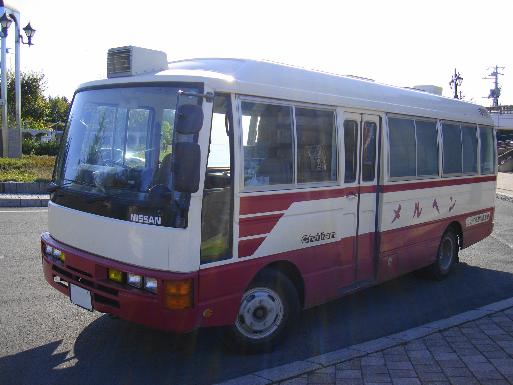 Bookmobile of Ōzora, Hokkaidō, Japan.